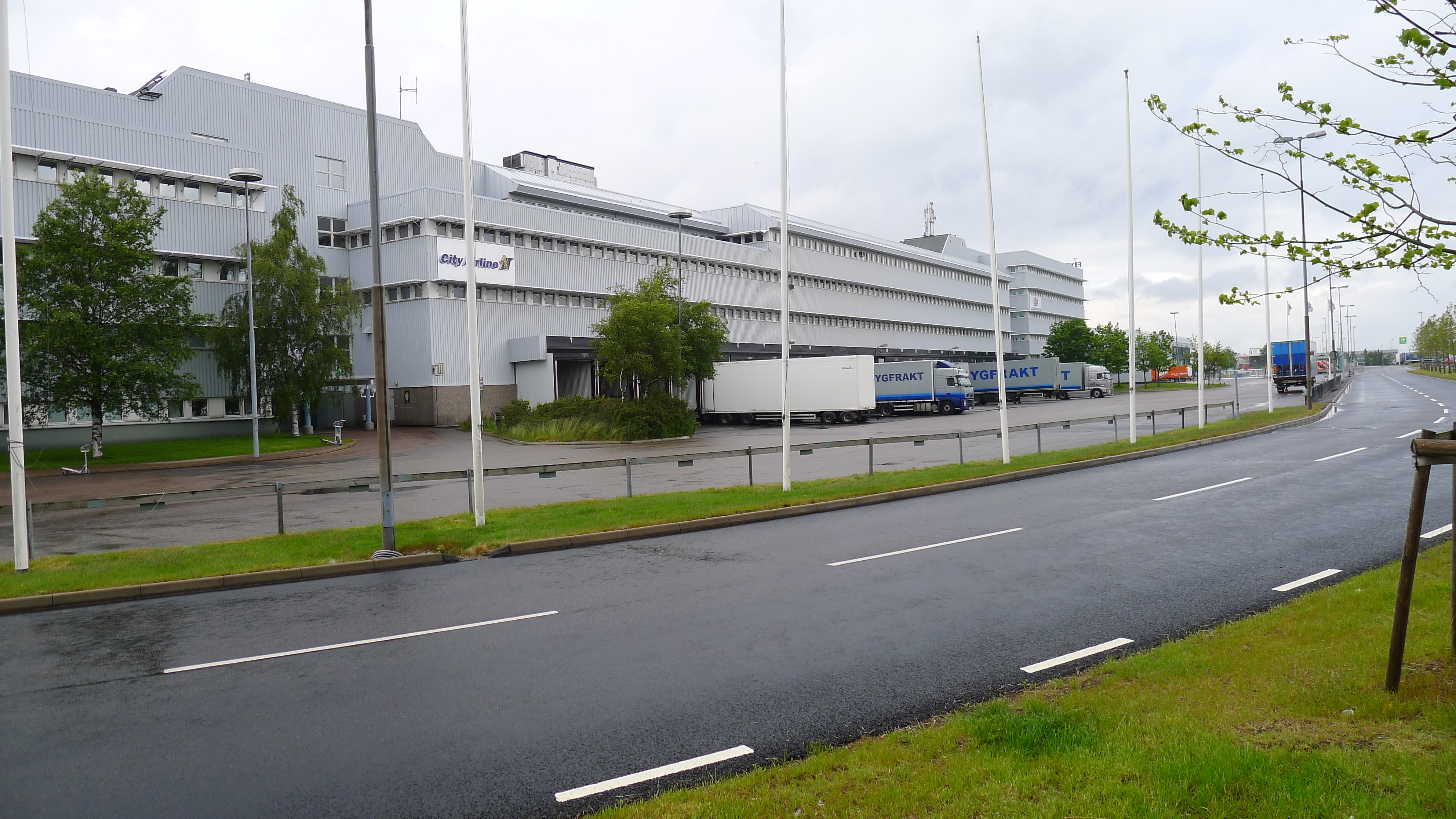 Air Cargo Building, head office of City Airline, Gothenburg-Landvetter Airport